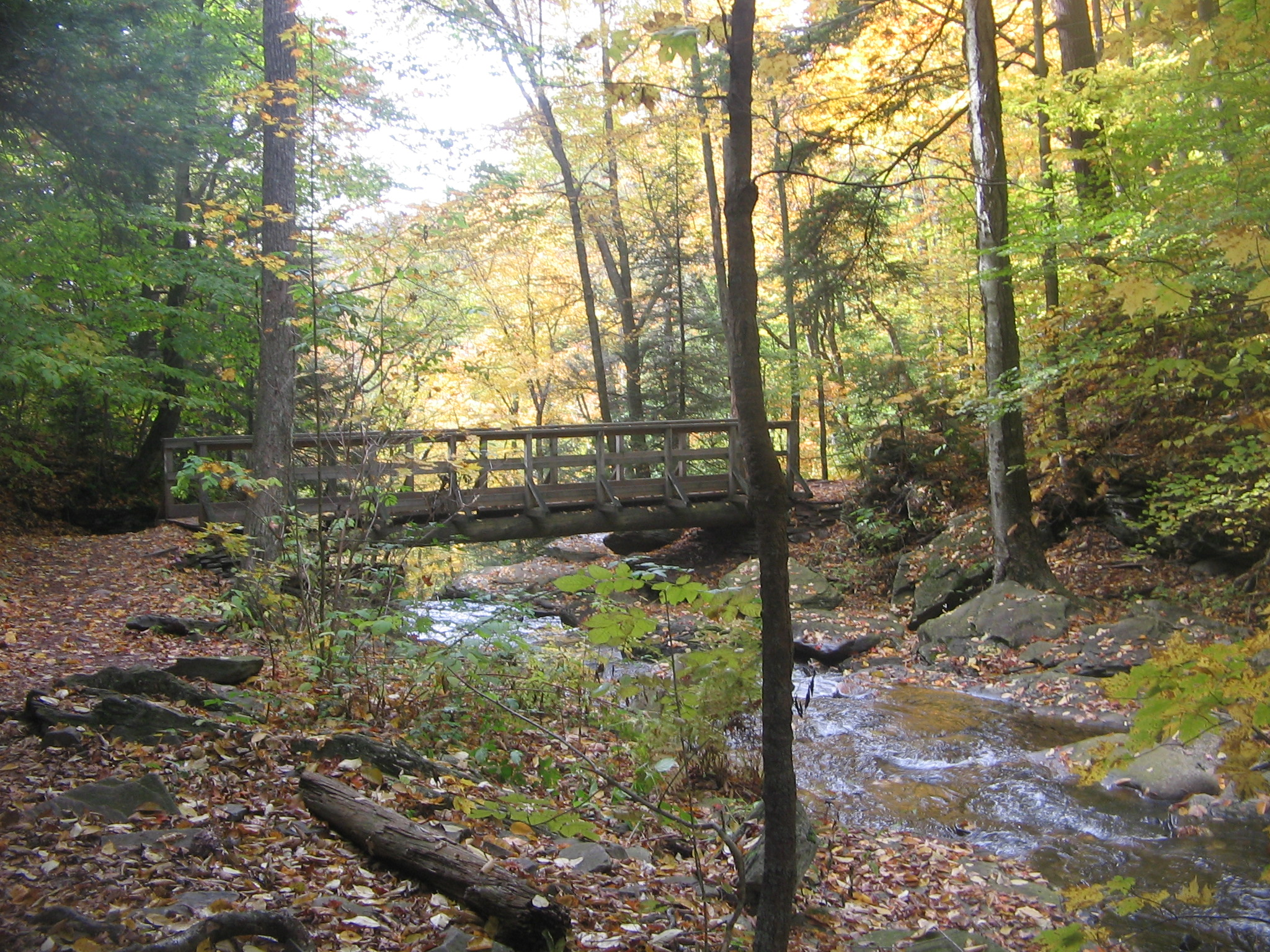 View looking down Kitchen Creek to bridge just above top of Ozone Falls (60 feet (18.3 m) tall) on the Glen Leigh trail in Ricketts Glen State Park, Fairmount Township,Luzerne County, Pennsylvania, USA. It is the fourth of eight named waterfalls in Glen Leigh on Kitchen Creek, going upstream from Waters Meet, and one of twenty two named waterfalls in the park, according to the Pennsylvania Department of Conservation and Natural Resources.